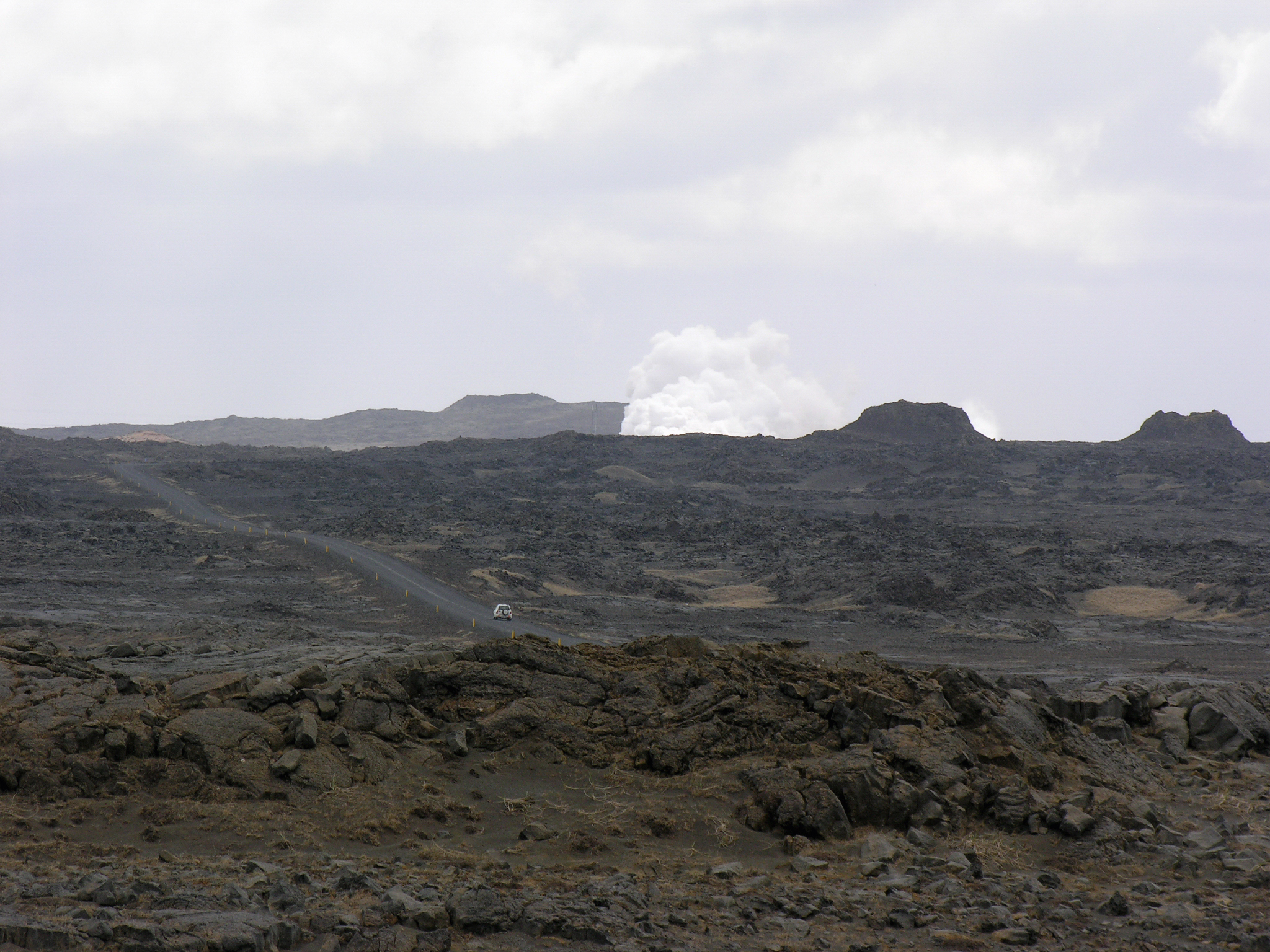 Iceland, Reykjanes